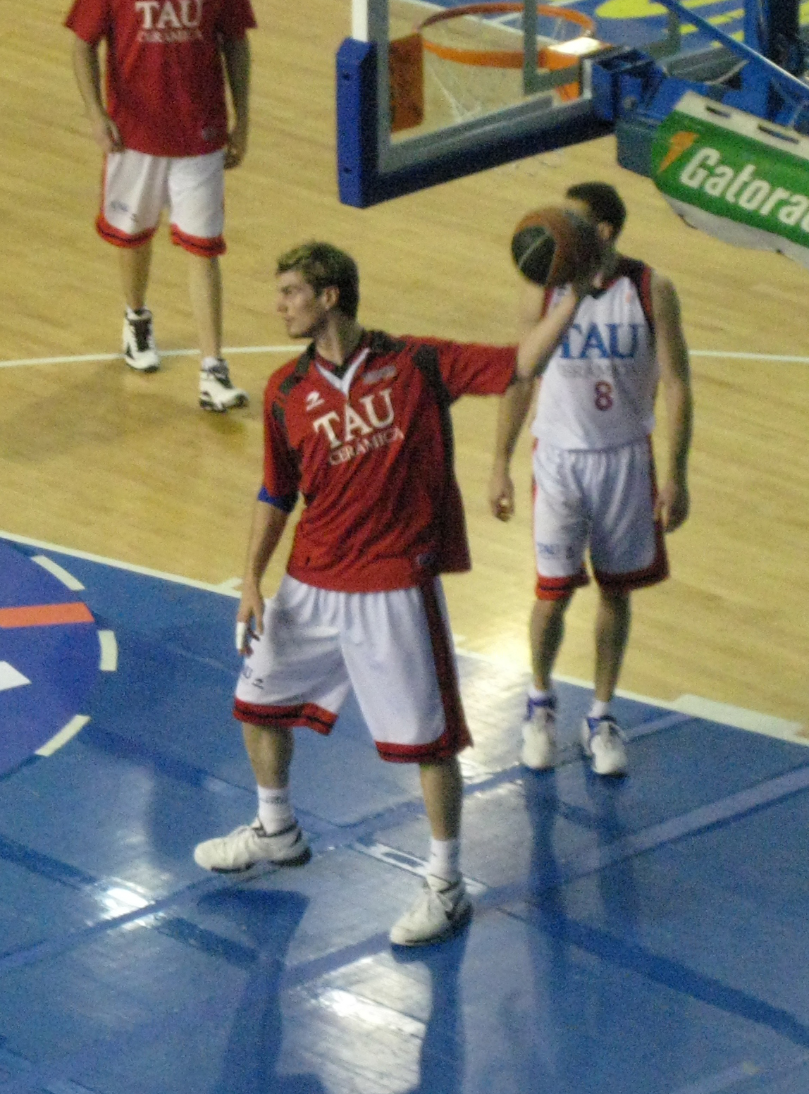 Tiago Splitter warming up in the second game of the 2008 ACB Finals.